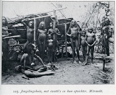 Rouffaer, G.P. et al.: De Zuidwest Nieuw-Guinea-Expeditie, 1904-5, Kon. Ned. Aardrijkskundig Genootschap, Leiden E. J. Brill, 1908 - 125 Youth home with ewattis and their supervisor, Merauke. p. 559.